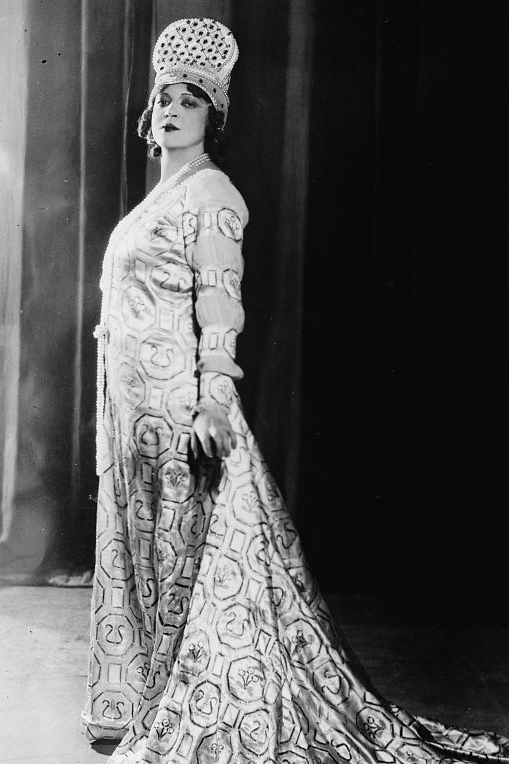 American opera singer Rosa Ponselle (1897-1981) in "William Tell" by Gioacchino Rossini